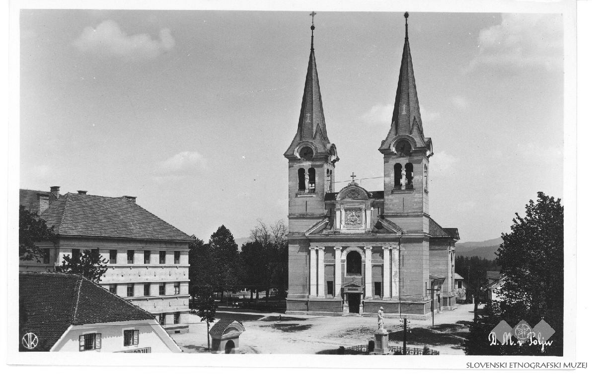 Postcard of Ljubljana, Polje church